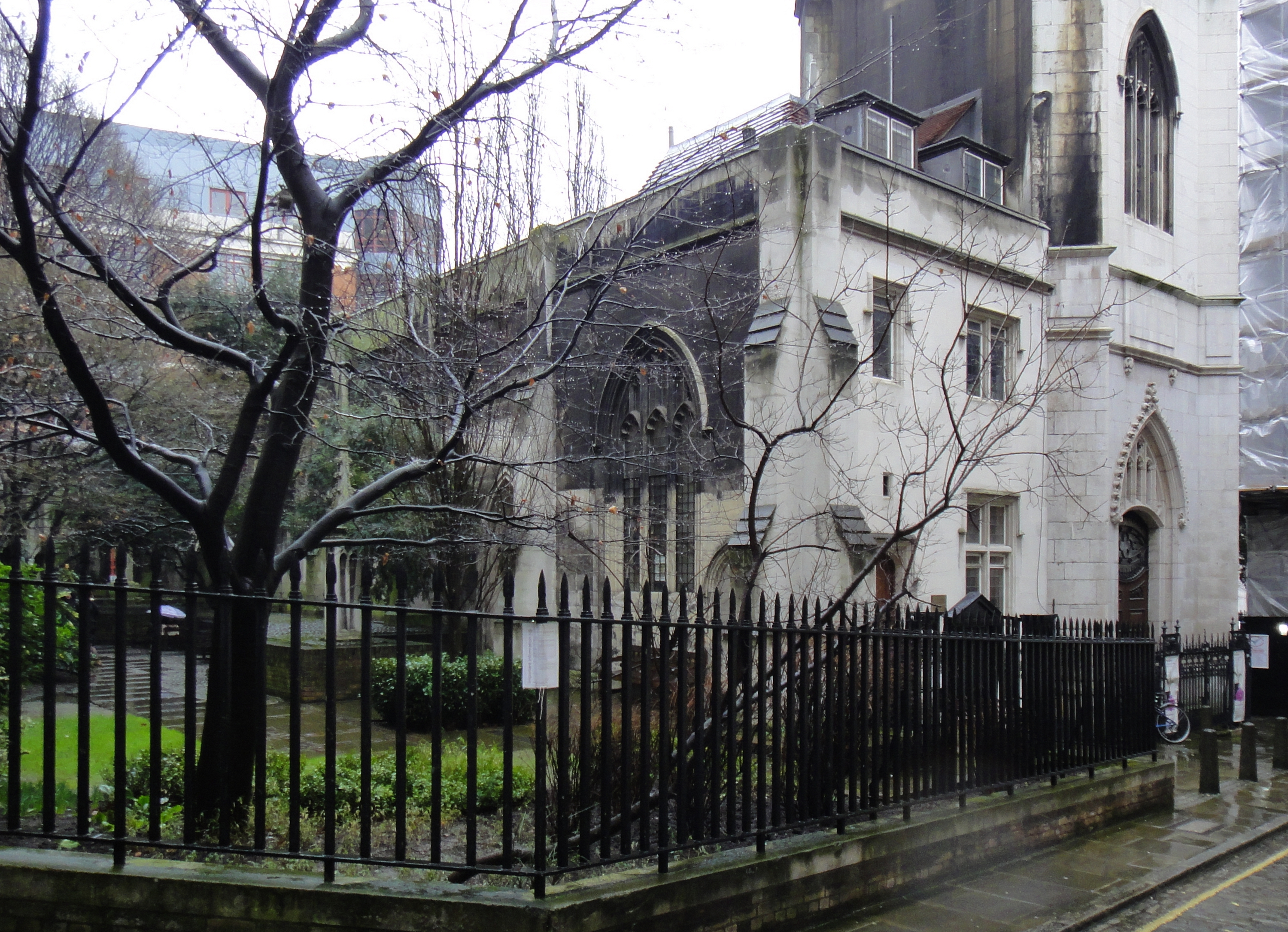 St Dunstan in the East